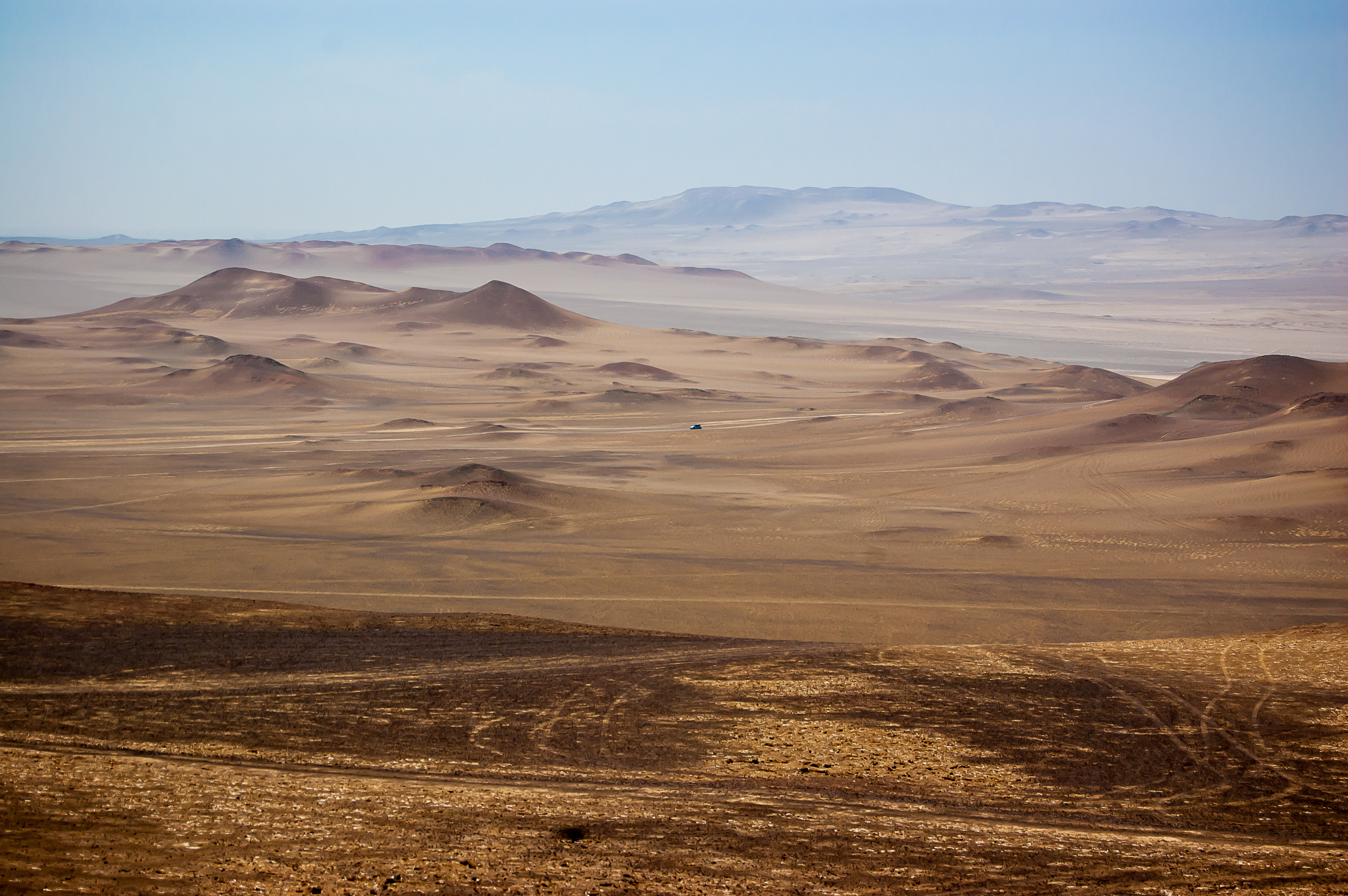 Photo by